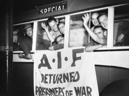 Australian War Memorial image 121234. Former Australian prisoners of war wave from the bus which took them to the Royal Agricultural Showgrounds after arriving at Central Station in Brisbane.